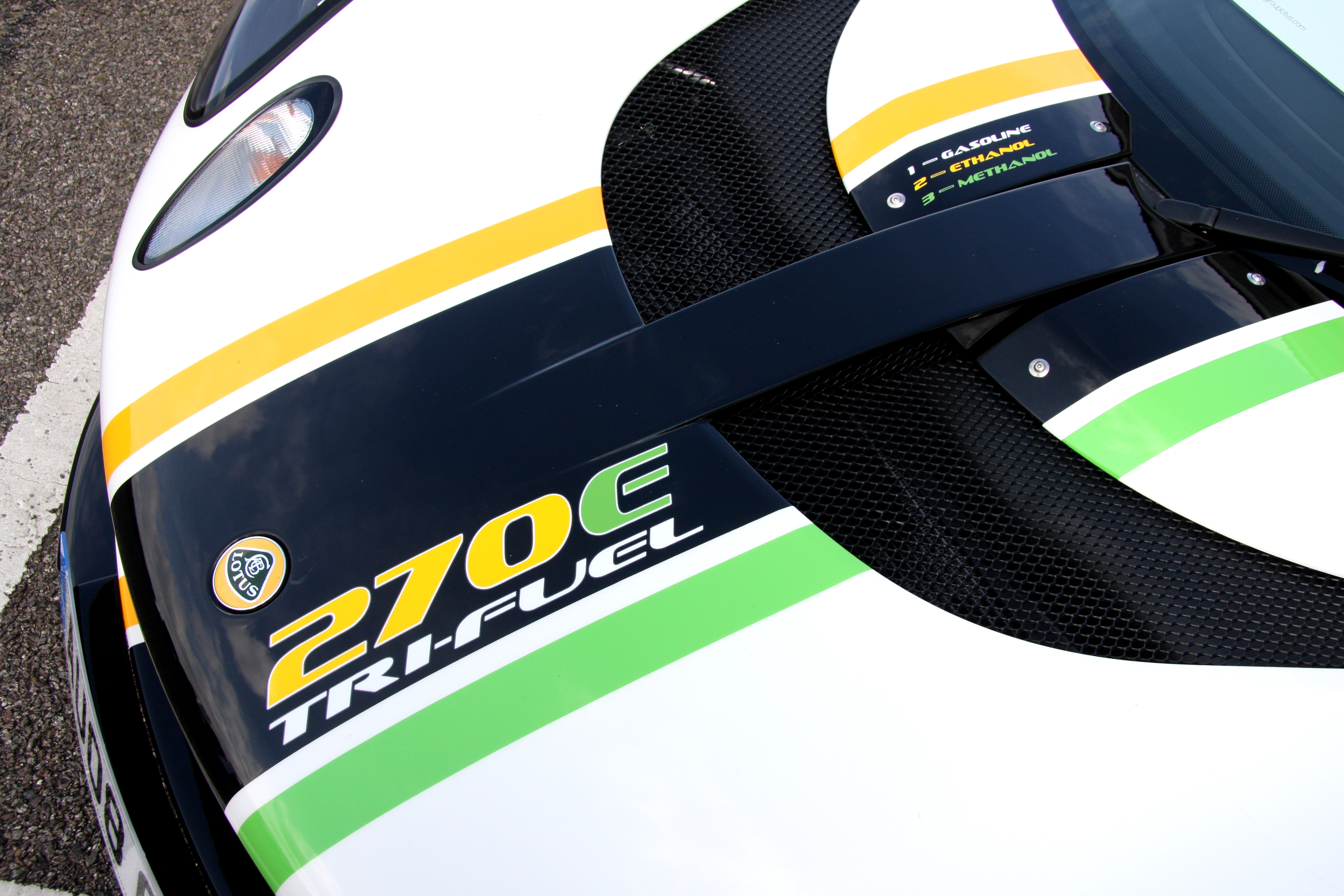 Lotus Exige 270E Tri-Fuel at Lotus 60th Celebration More info